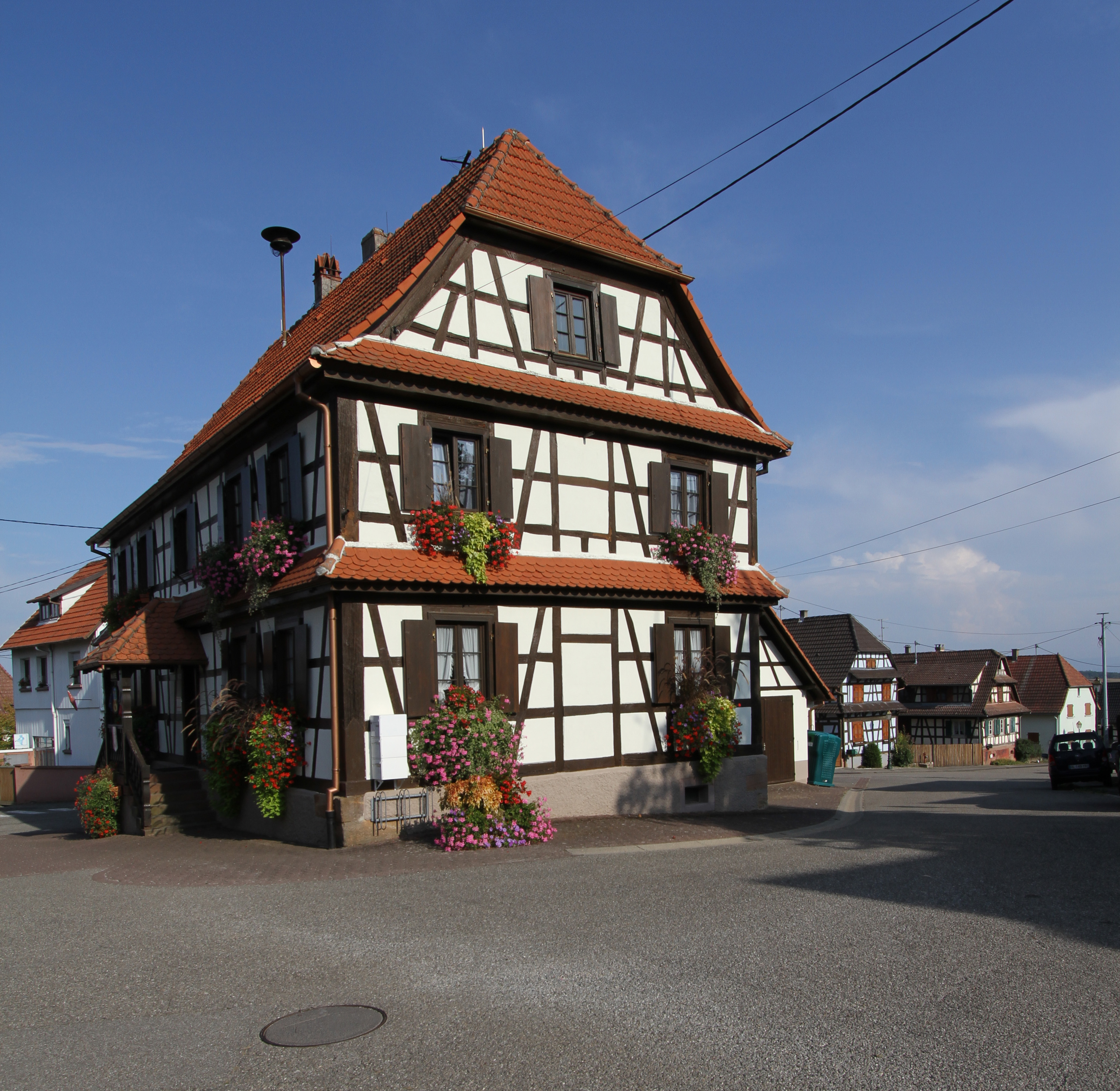 Town hall of Schoenenbourg.